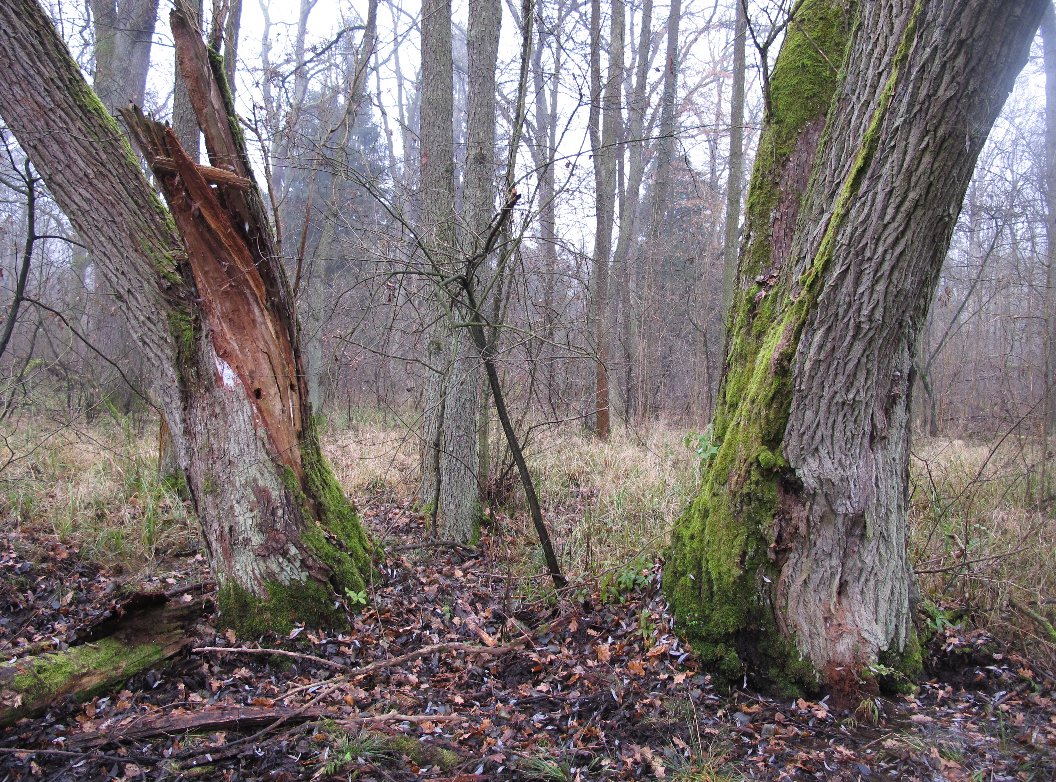 Nature reserve Bažantník near Sedmihorky - Karlovice, Semily District - Czech Republic